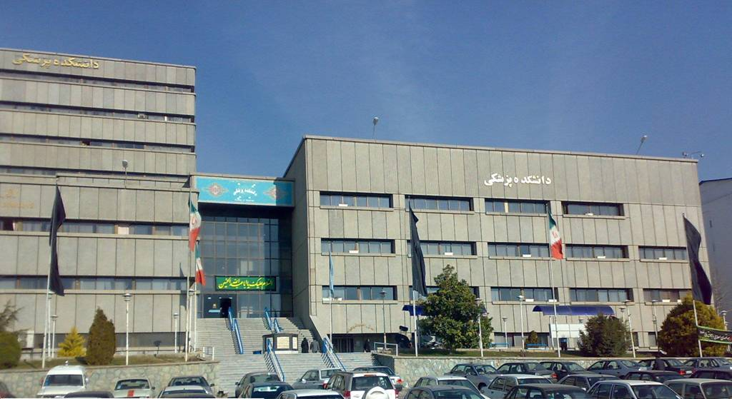 This picture taken on Mo Jan-11-2010